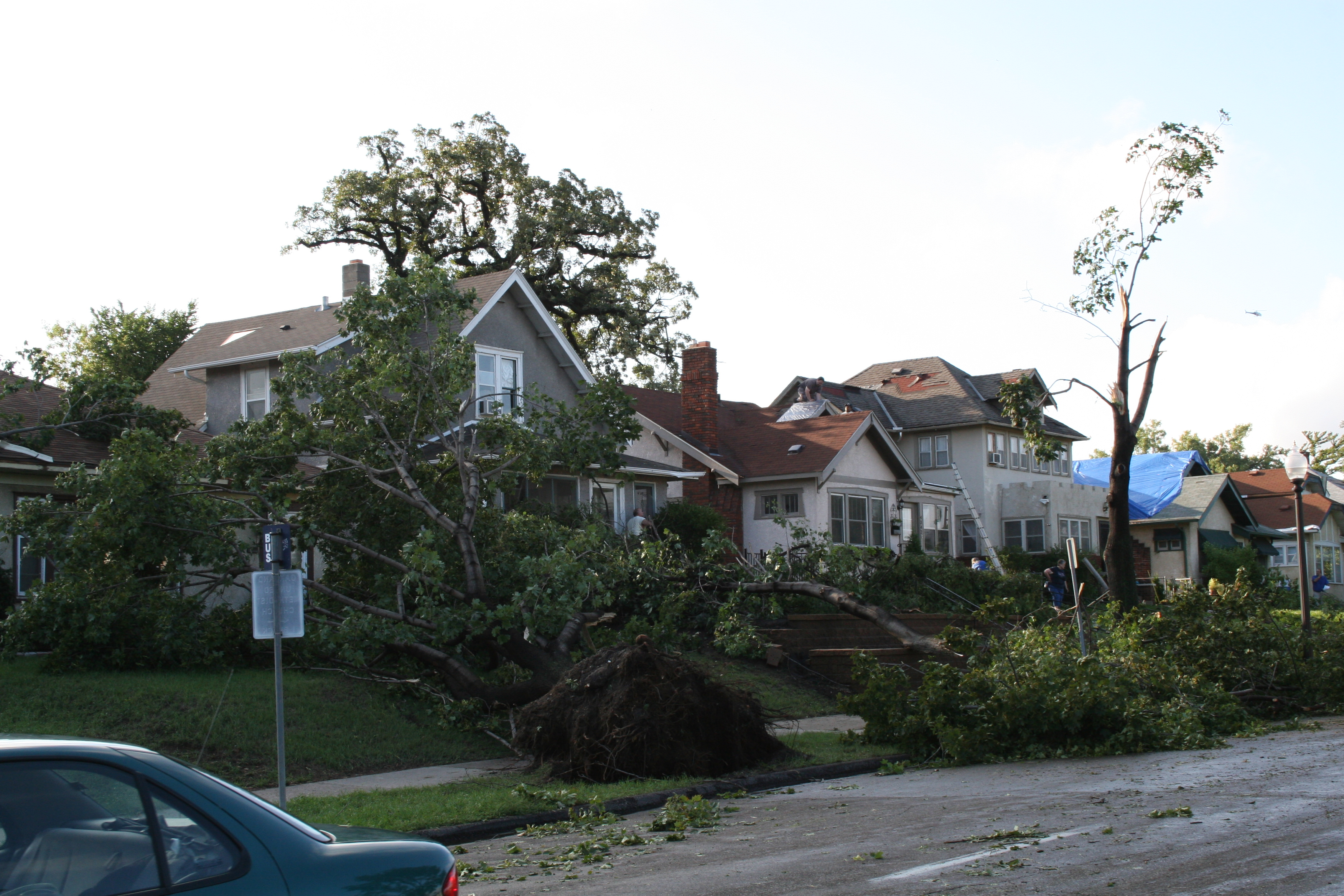 Minneapolis Tornado. Portland Avenue at East 44th Street